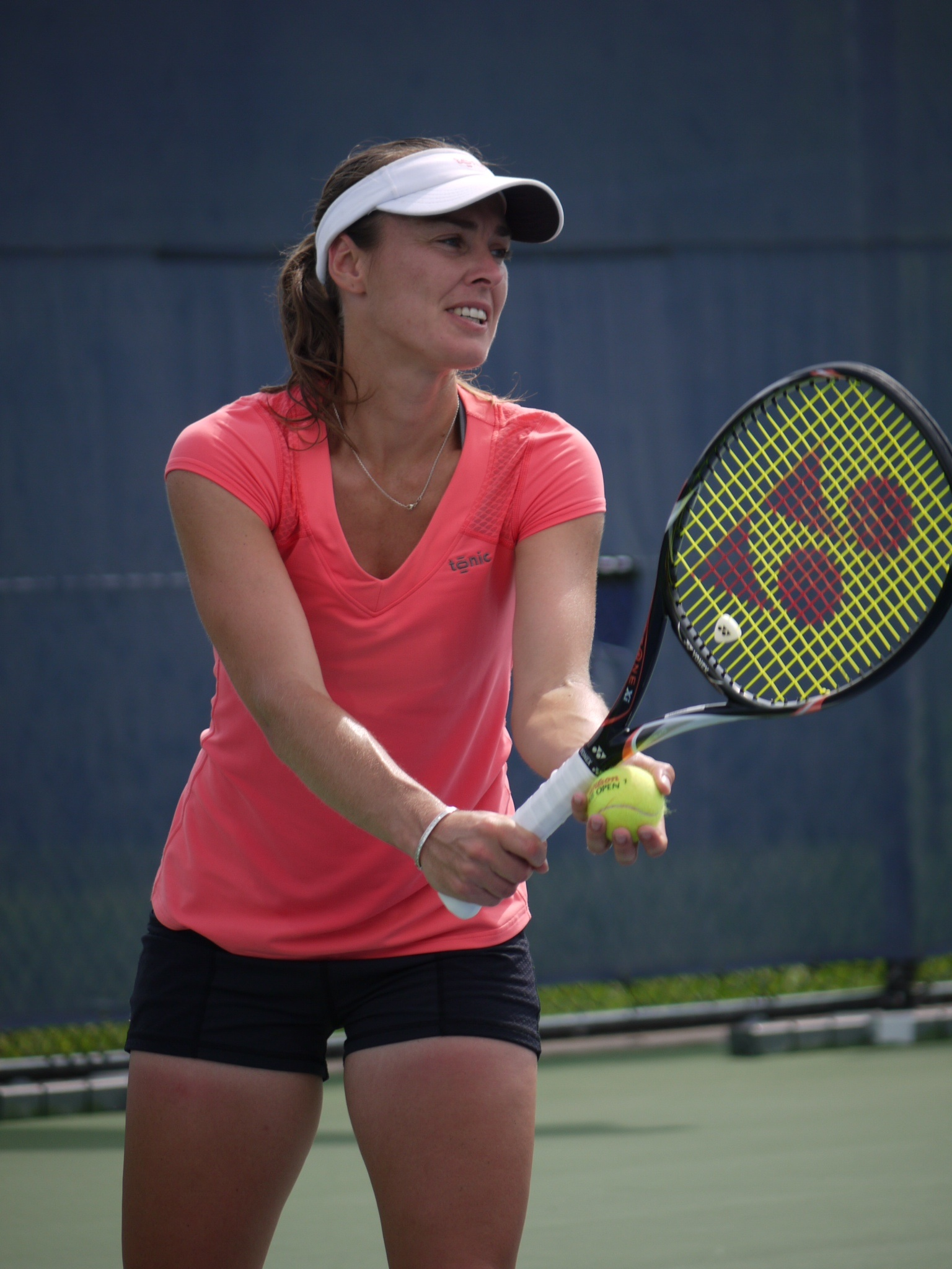 Martina Hingis practicing with doubles partner Daniella Hantuchova at the 2013 Rogers Cup in Toronto